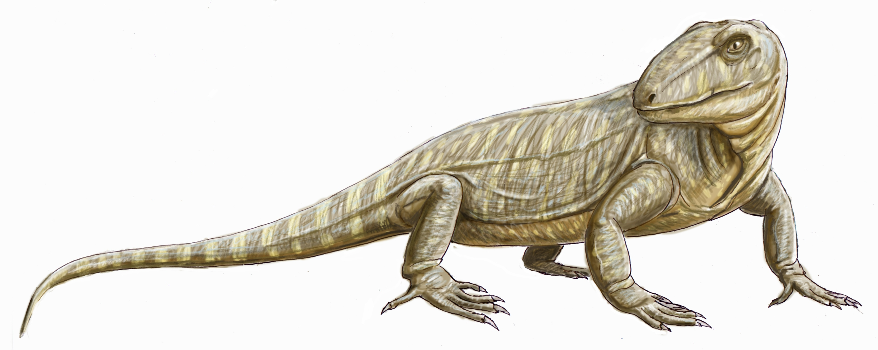 Cutleria wilmarthi - Sphenacodont Pelycosaurian from Late Carboniferous - Early Permian of North America